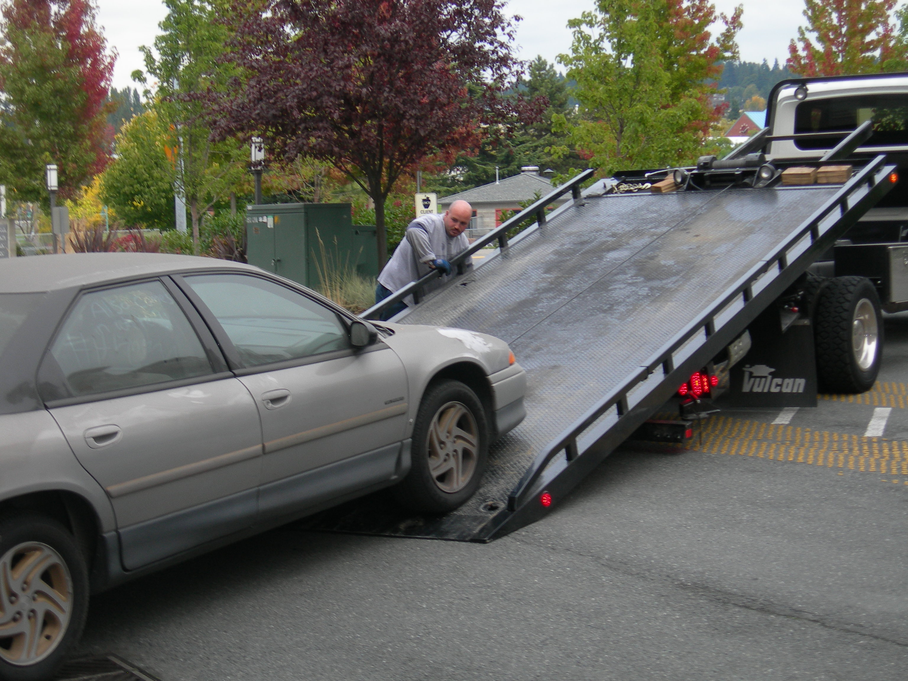 A car being loaded onto a flatbed tow truck